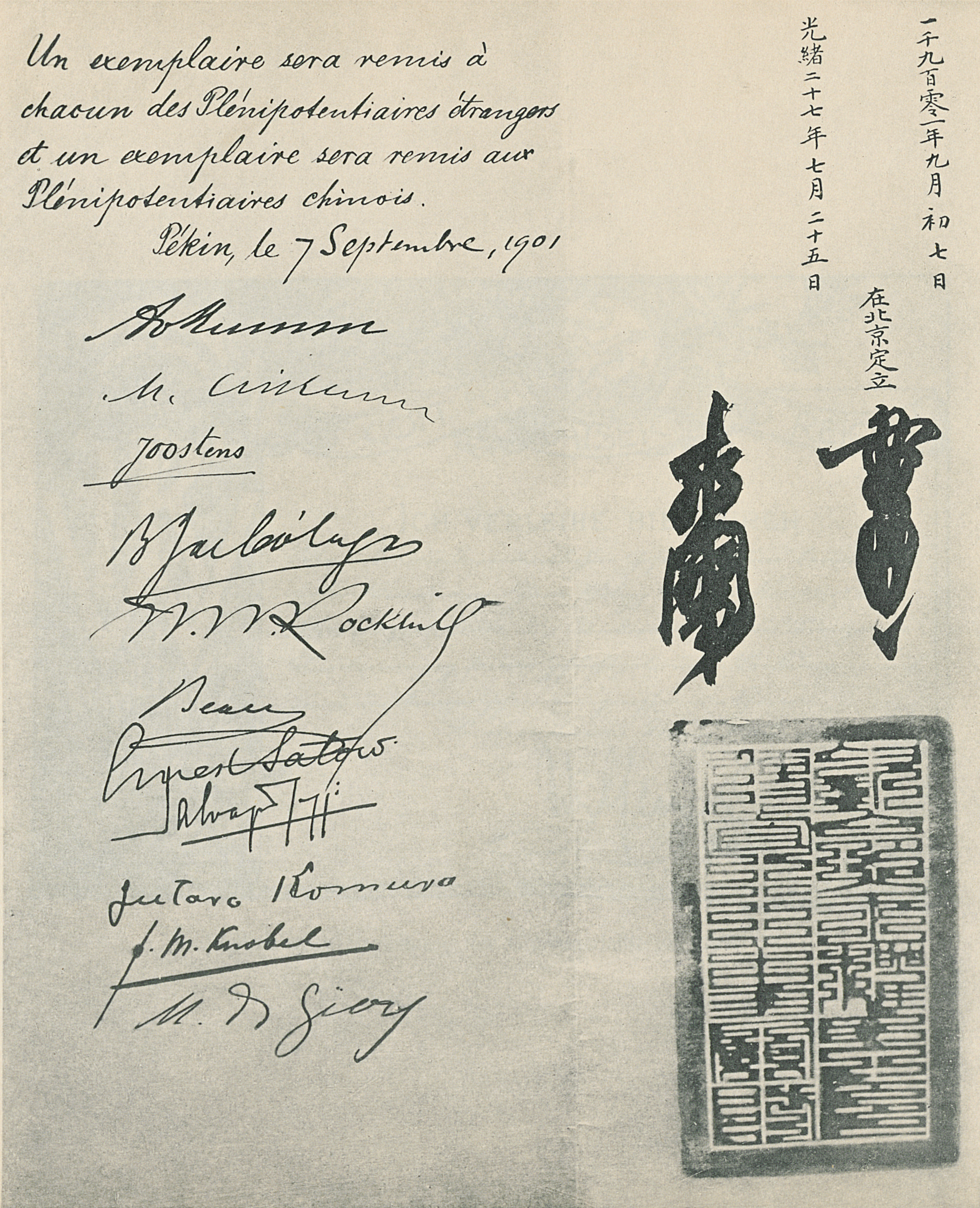 Signature page of the Boxer rebellion settlement Protocol in 1901